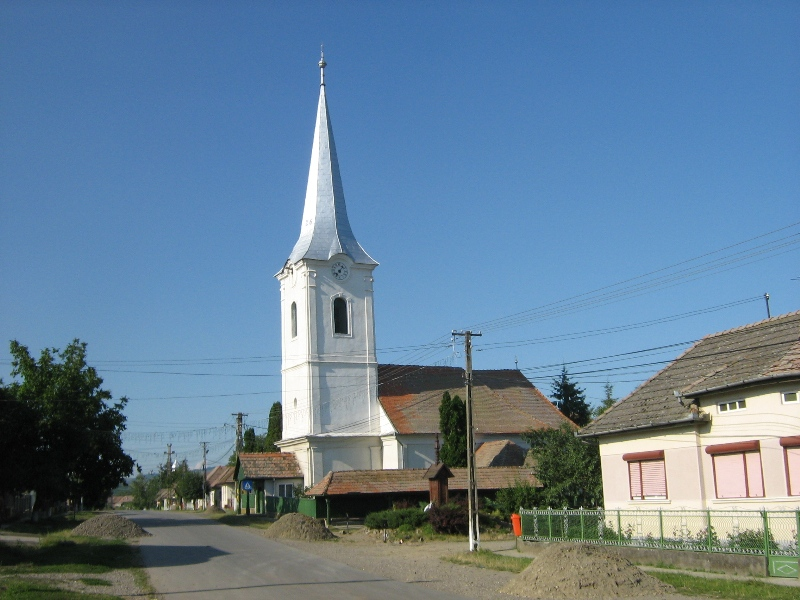 Csittszentiván, village in Transylvania